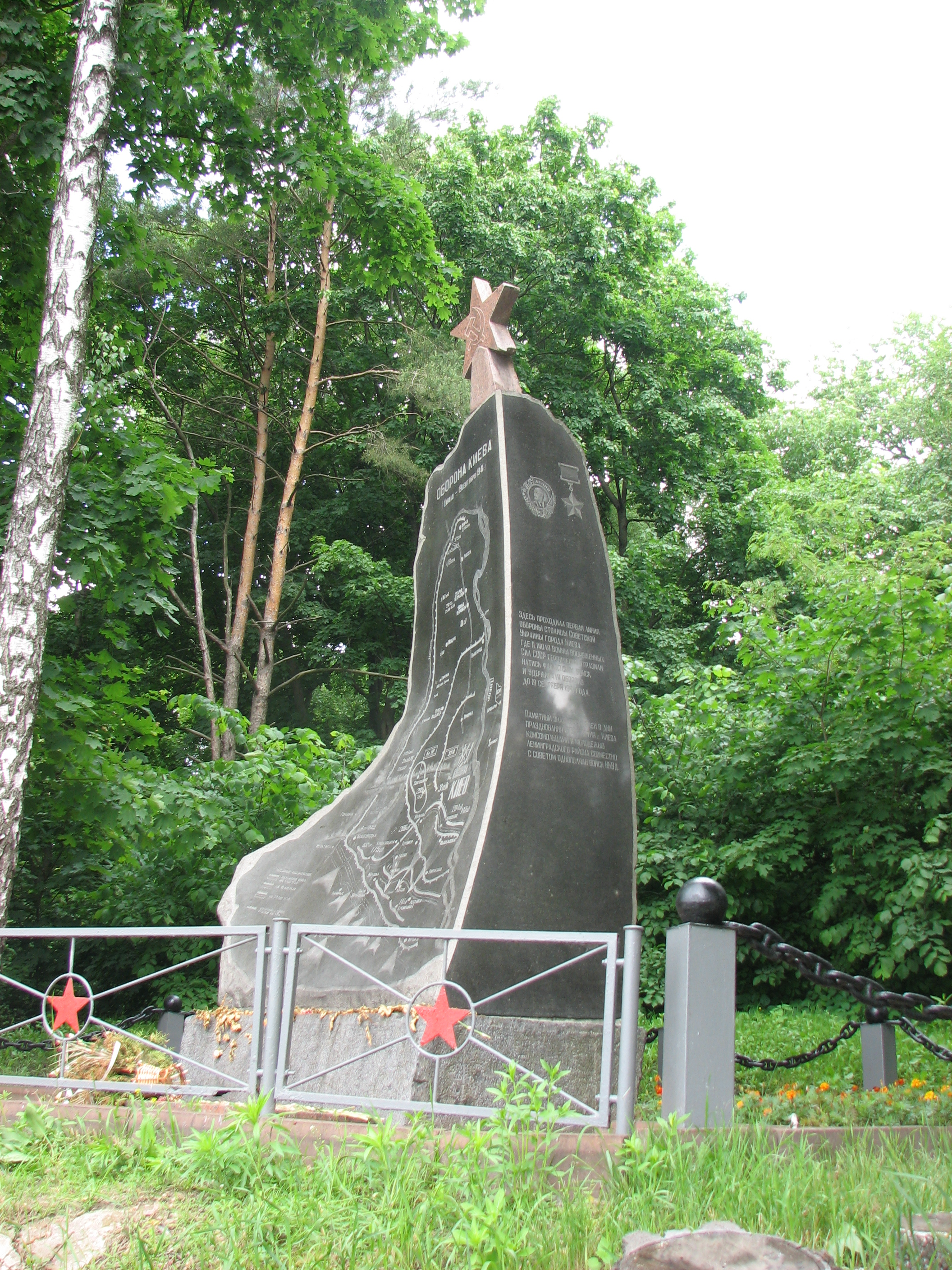 Memorial sign of KyFR